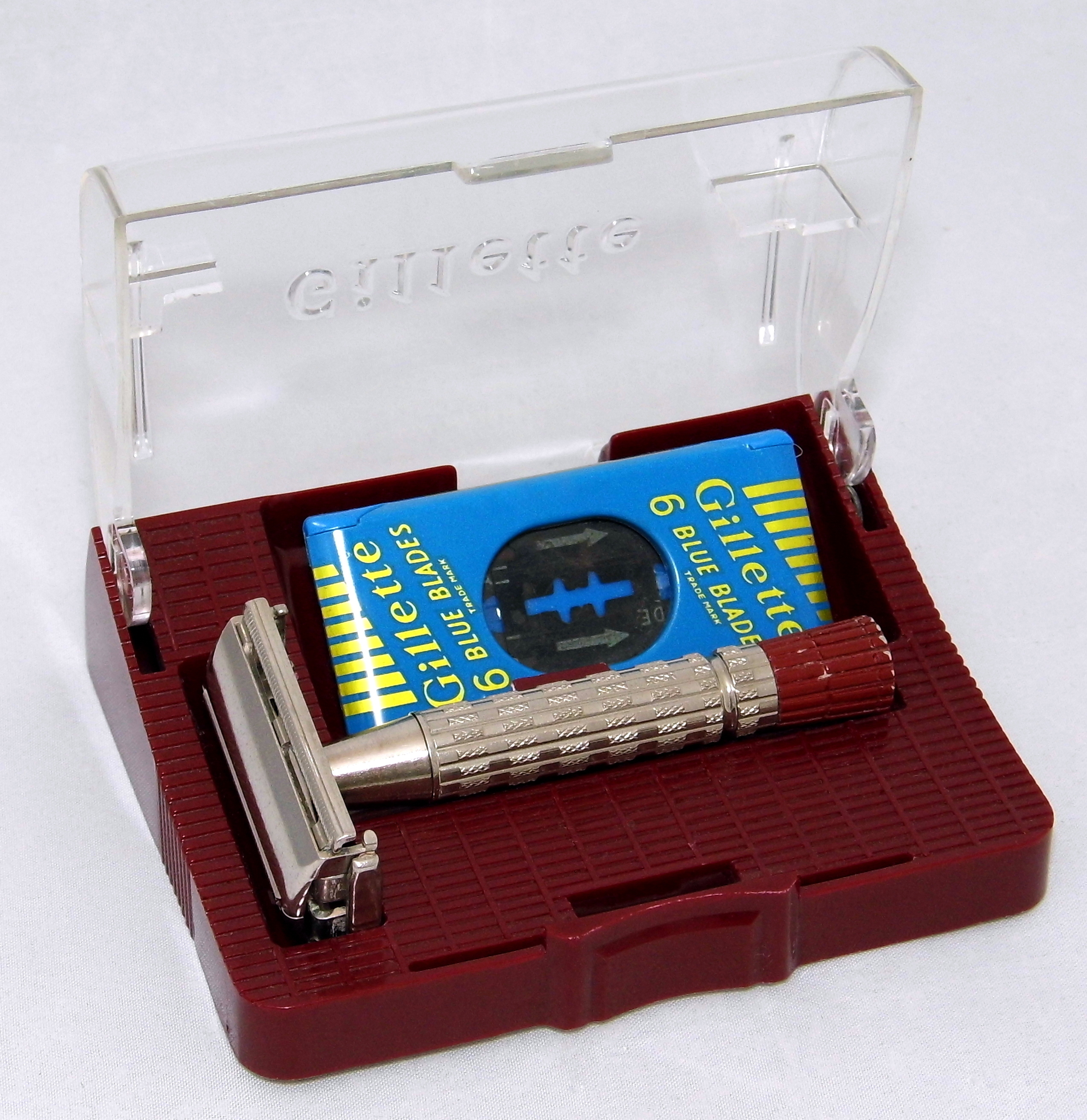 A Gillette Super Speed double-edge safety razor from 1958.